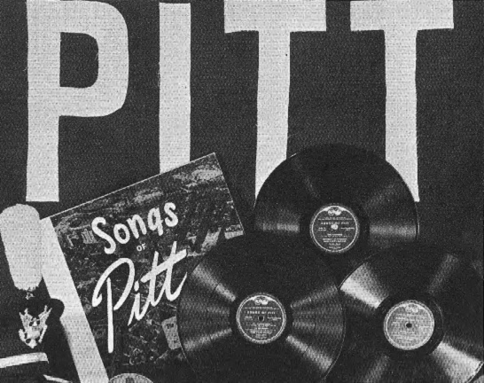 Display depicting the release of Songs of Pitt by RCA Victor Recording company by the Pitt Band and Pitt Men's Glee Club that appeared in the Owl student yearbook of the University of Pittsburgh in 1953.